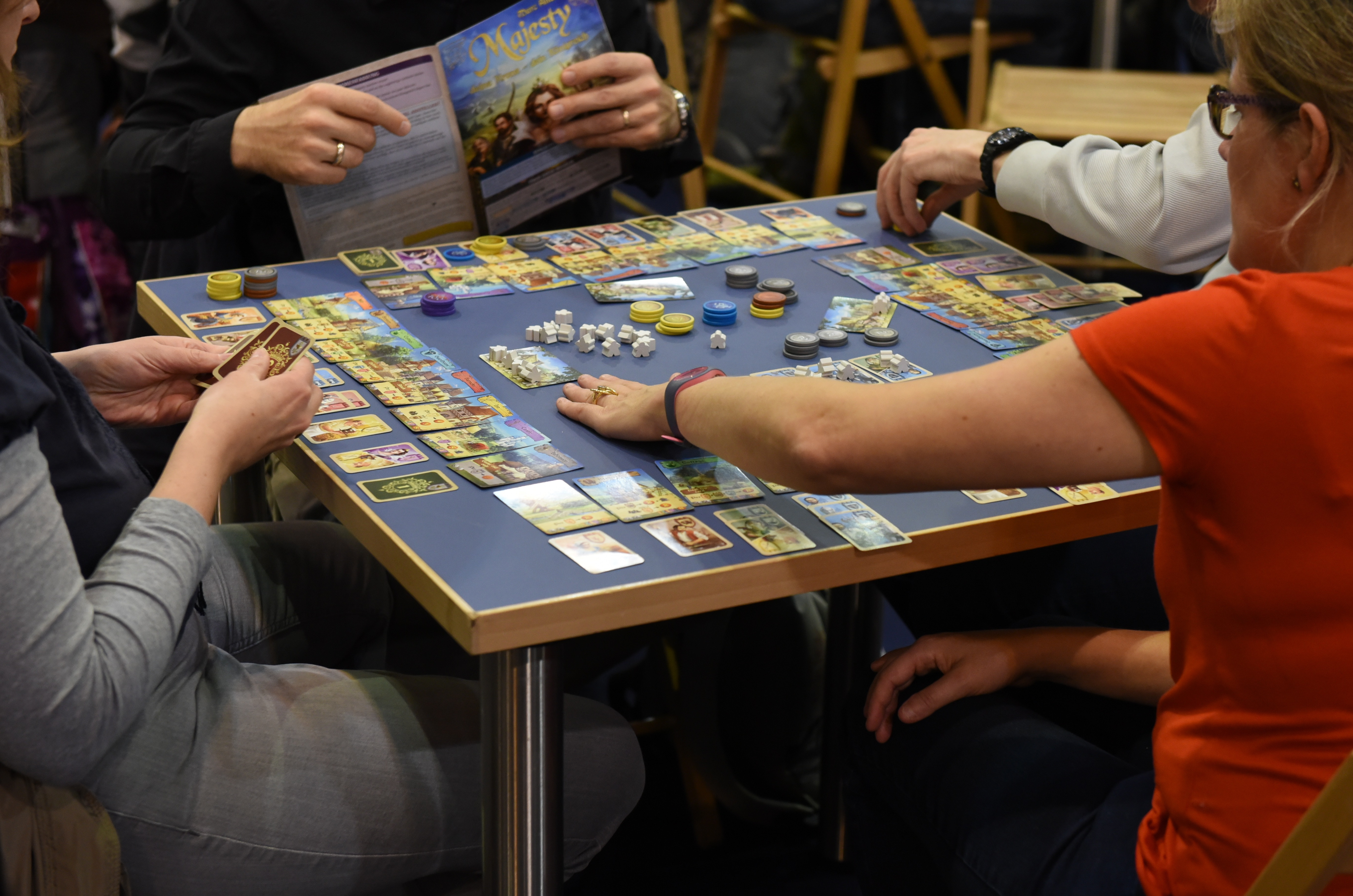 The game Majesty played at the board game fair Spiel '17 in Essen, Germany.